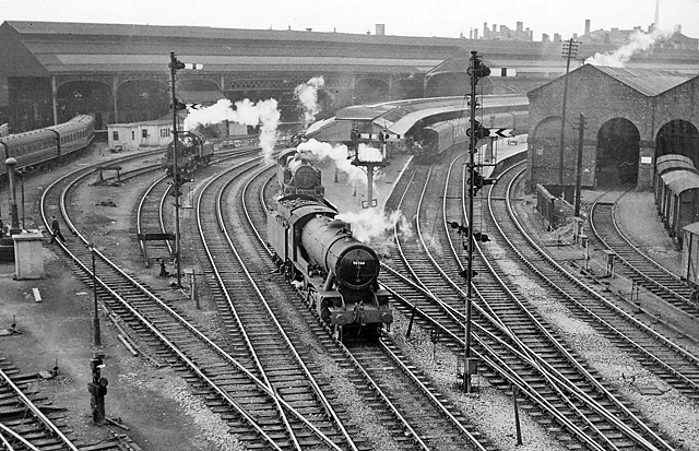 Preston Station, East Lancashire platforms. View NW, to Platforms 10 - 13 from what is, in 2010, East Cliff, with the main station behind. These platforms constituted the ex-Lancashire & Yorkshire (L&Y) section of this very busy junction station, serving the L&Y lines from the Blackburn direction, also from Liverpool Exchange and from Southport (until 7/9/64) Butler Street Goods adjoined (on the right). The lines joined with the ex-London & North Western West Coast Main Line at the north end of the main station. North of Preston station these two major systems threw off their three joint lines to Blackpool and Fleetwood. On Summer Saturdays Preston was one of the busiest stations in the country and therefore a 'Mecca' for Train-Watchers. However, the inevitable falling off in traffic as the Motorway Age ensued in the 1960s resulted in this part of Preston Station being closed to passengers on 6/5/68, completely on 4/9/72. It is now occupied by a massive car-park and Fishergate Shopping Centre. In this scene from 1959, an ex-WD 'Austerity' 2-8-0 is in the foreground, with a Stanier Class 4 2-6-4T behind it and to the left a BR Standard 2MT 2-6-0.